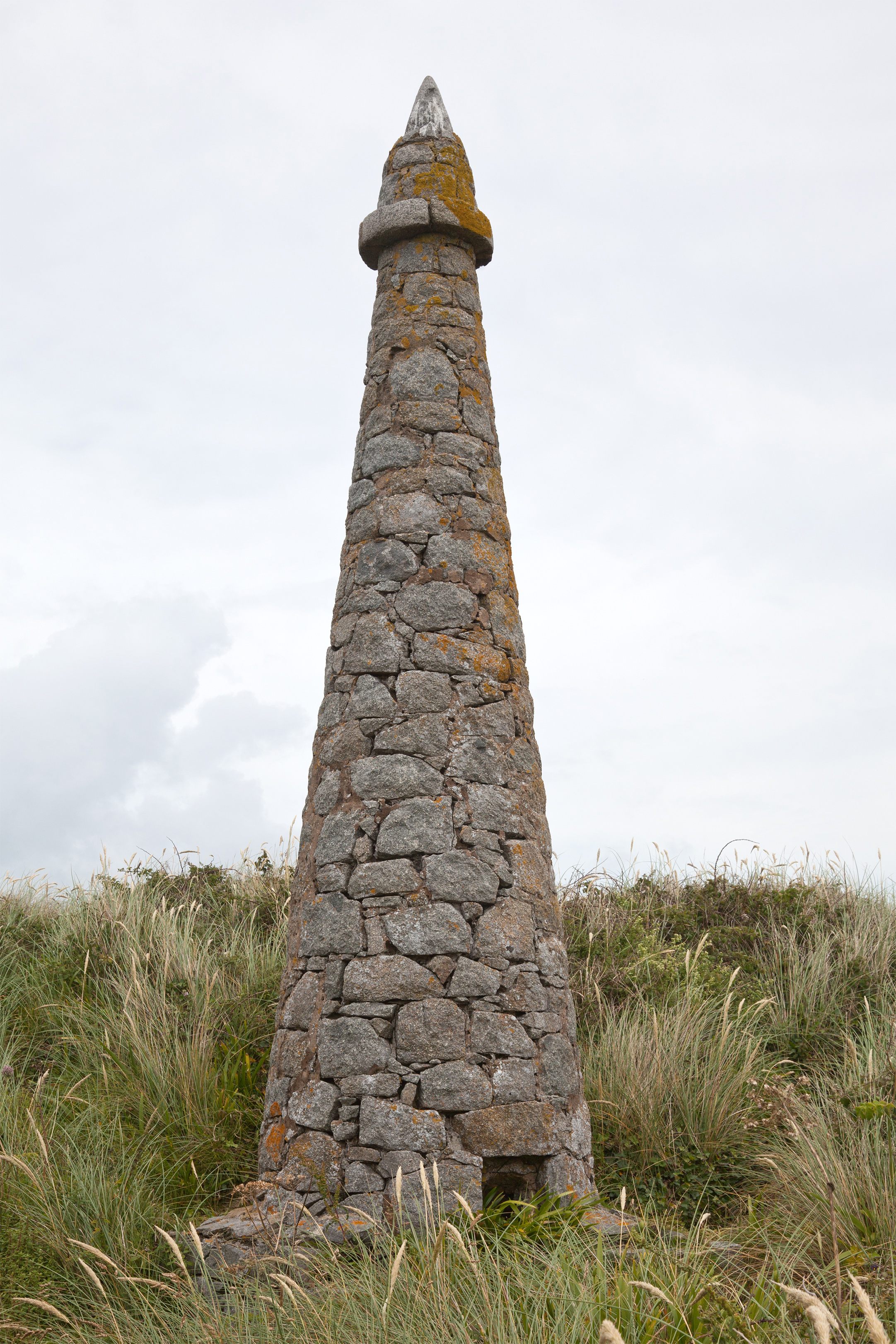 Herm, Pierre Aux Rats (Obelisk)